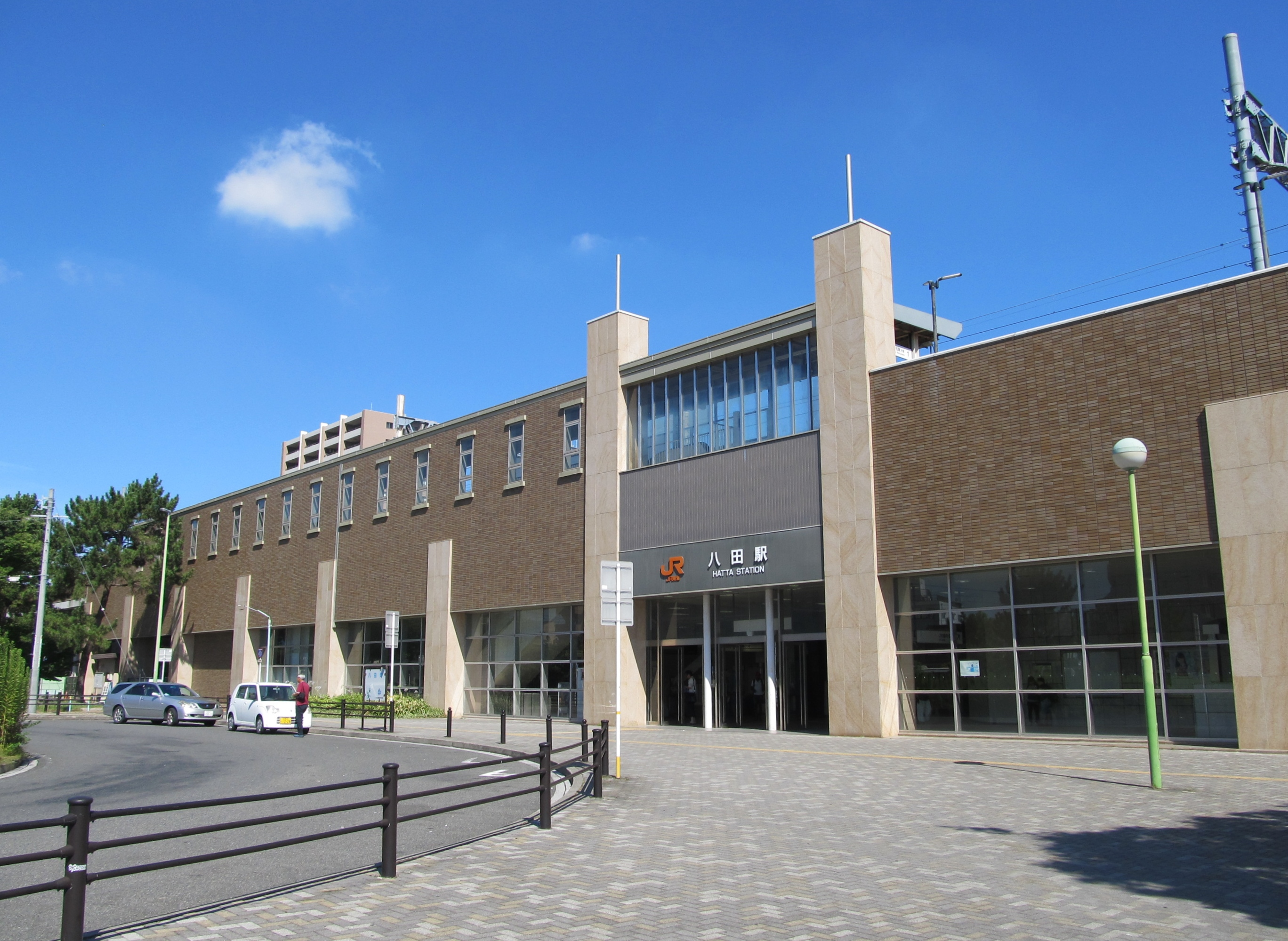 Central Japan Railway Kansai Line Hatta Station SouthGate